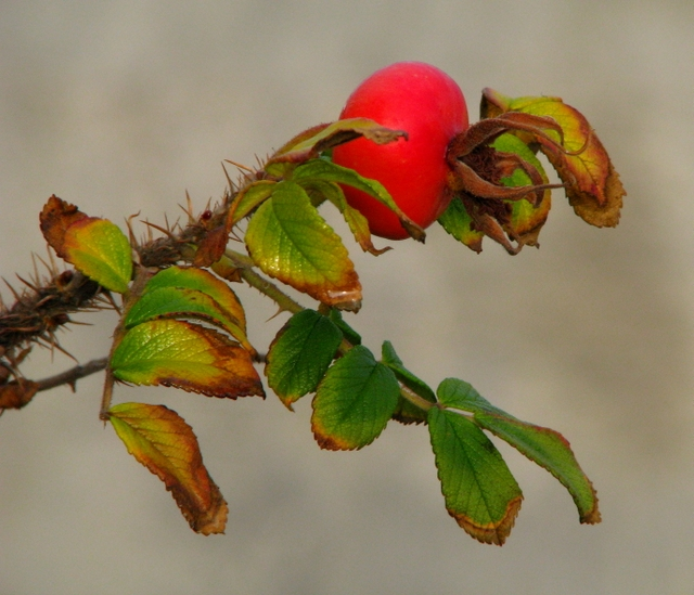 Rosehip, Bangor Rosehip by Pickie in Bangor. Out on a limb, this was the last surviving fruit on the bush, the others all have withered or been eaten.